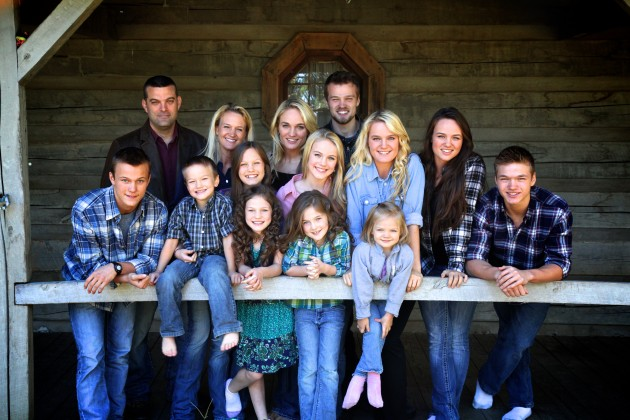 The Willie Family